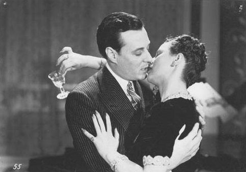 Amor- película argentina de 1940